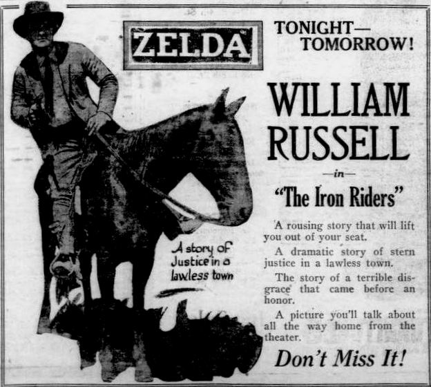 Newspaper advertisement for the American western film The Iron Rider (1920) (listed in the ad as The Iron Riders) with William Russell, on page 3 of the February 2, 1921 Duluth Herald.